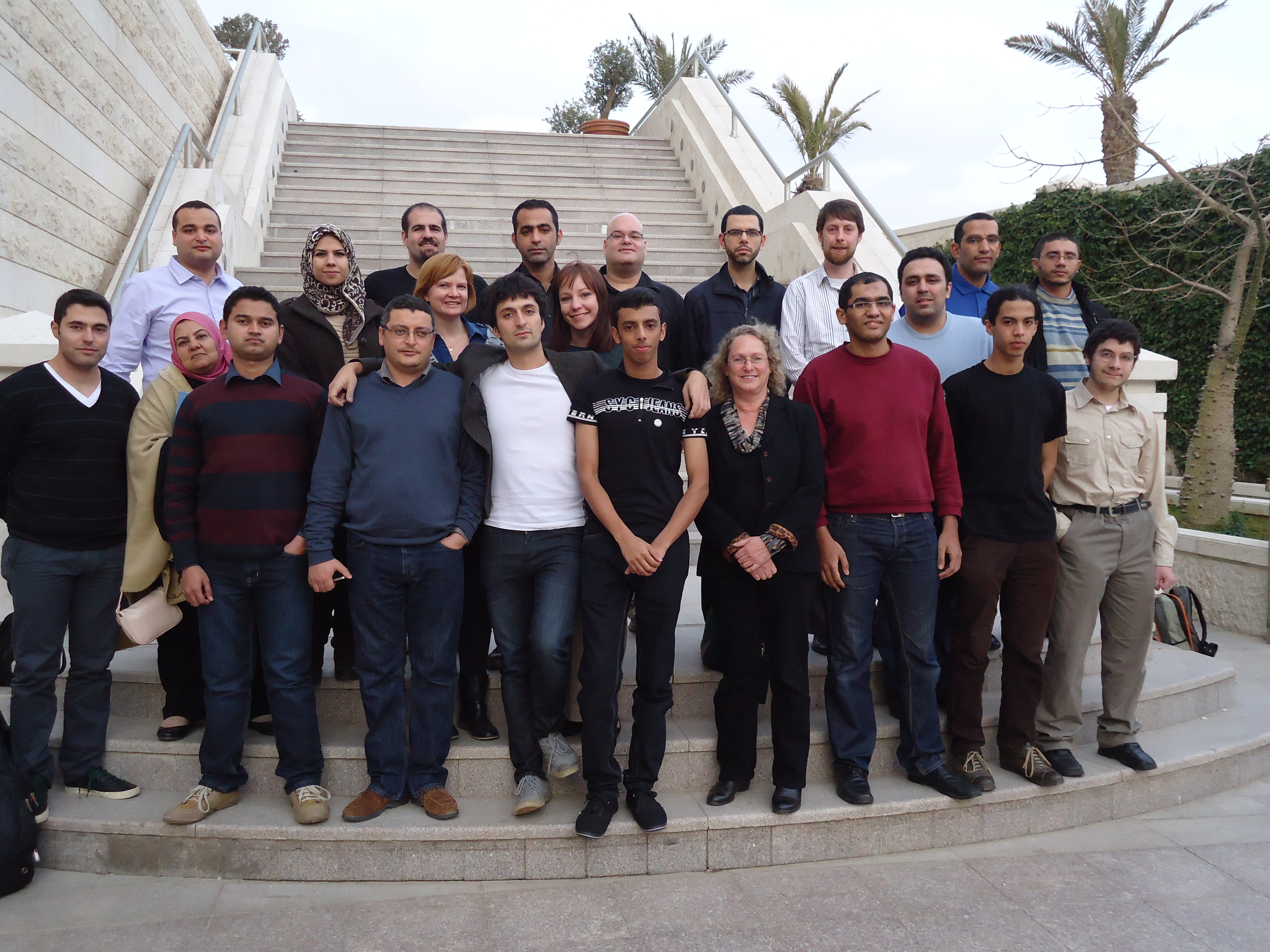 Wikipedia Workshop, Amman, Jordan